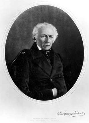 Engraving from a photograph of Johann Georg Bodmer